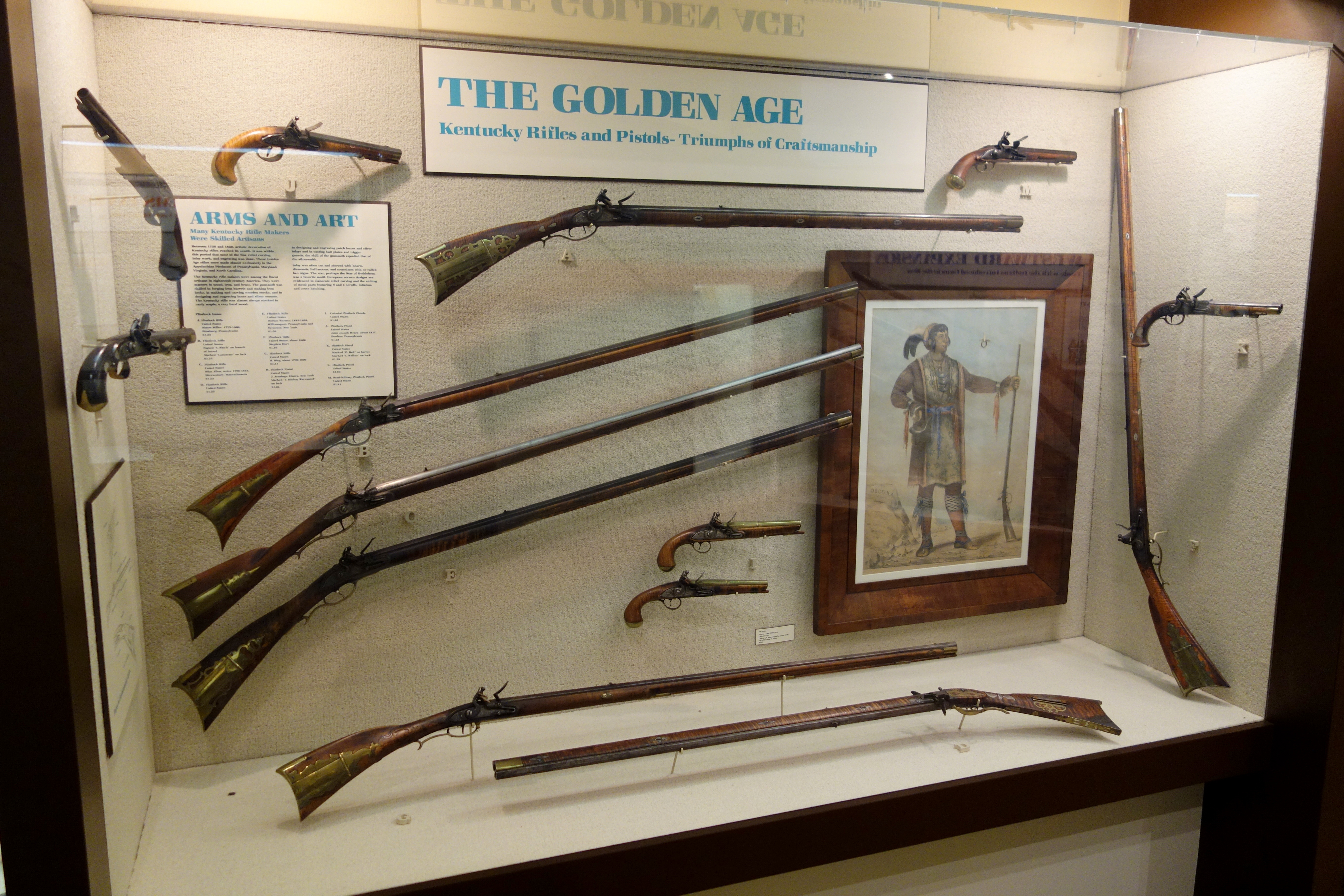 Exhibit in the Huntington Museum of Art, Huntington, West Virginia, USA. This artwork is in the public domain because the artist died more than 70 years ago.